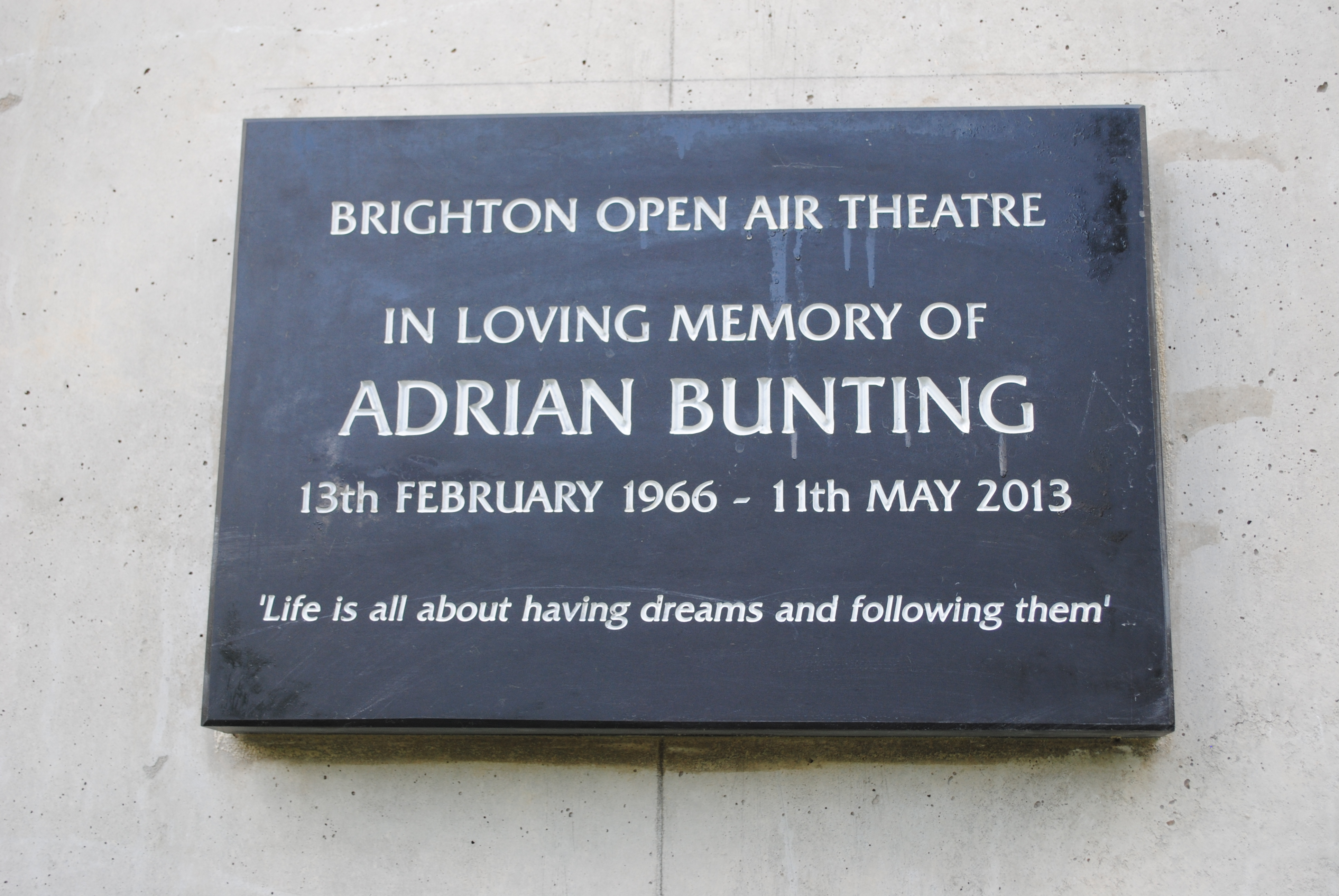 Memorial plaque on the acoustic wall of the Brighton Open Air Theatre